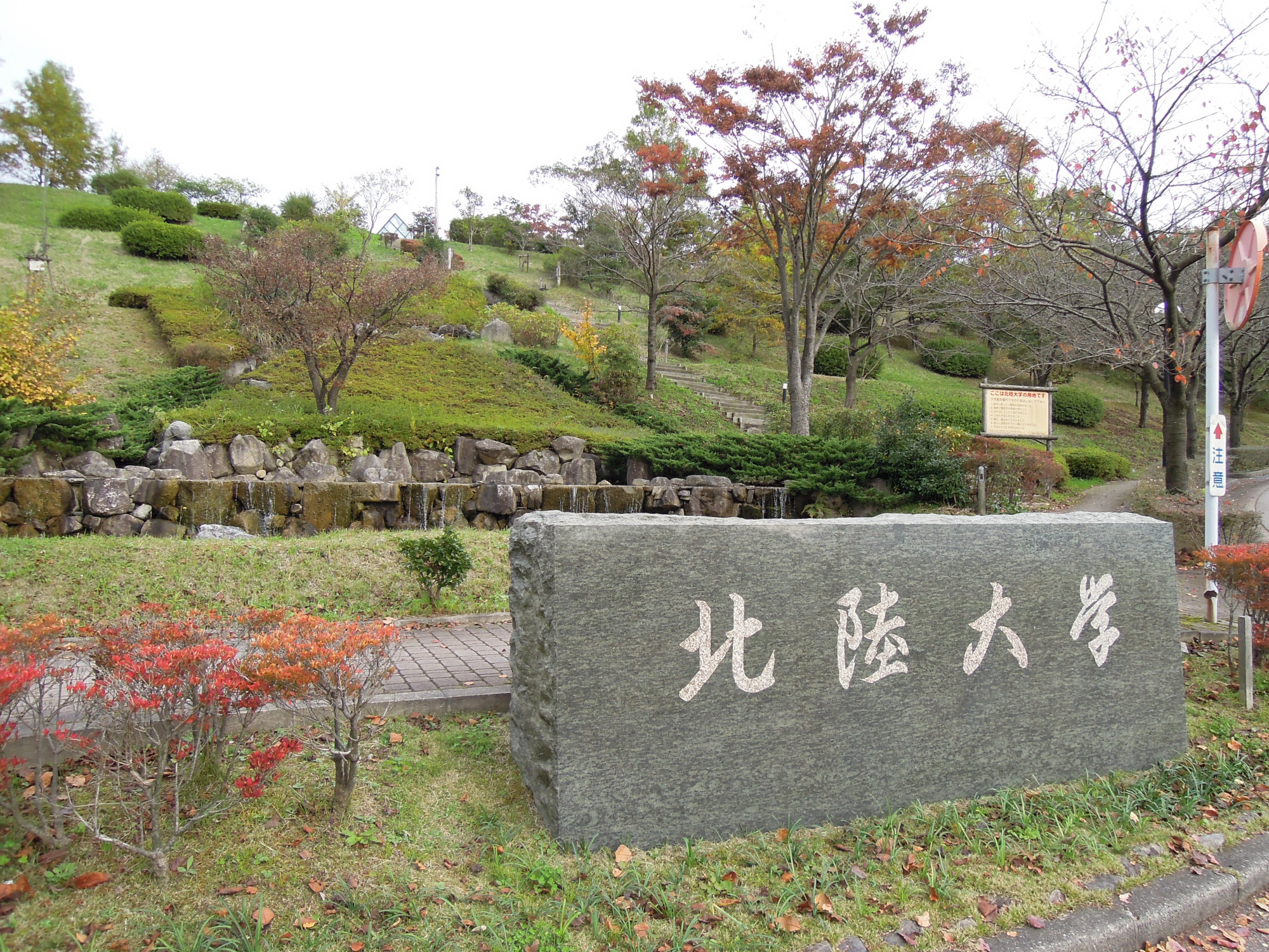 Hokuriku University, Entrance of Taiyogaoka Campus (Kanazawa, Ishikawa)